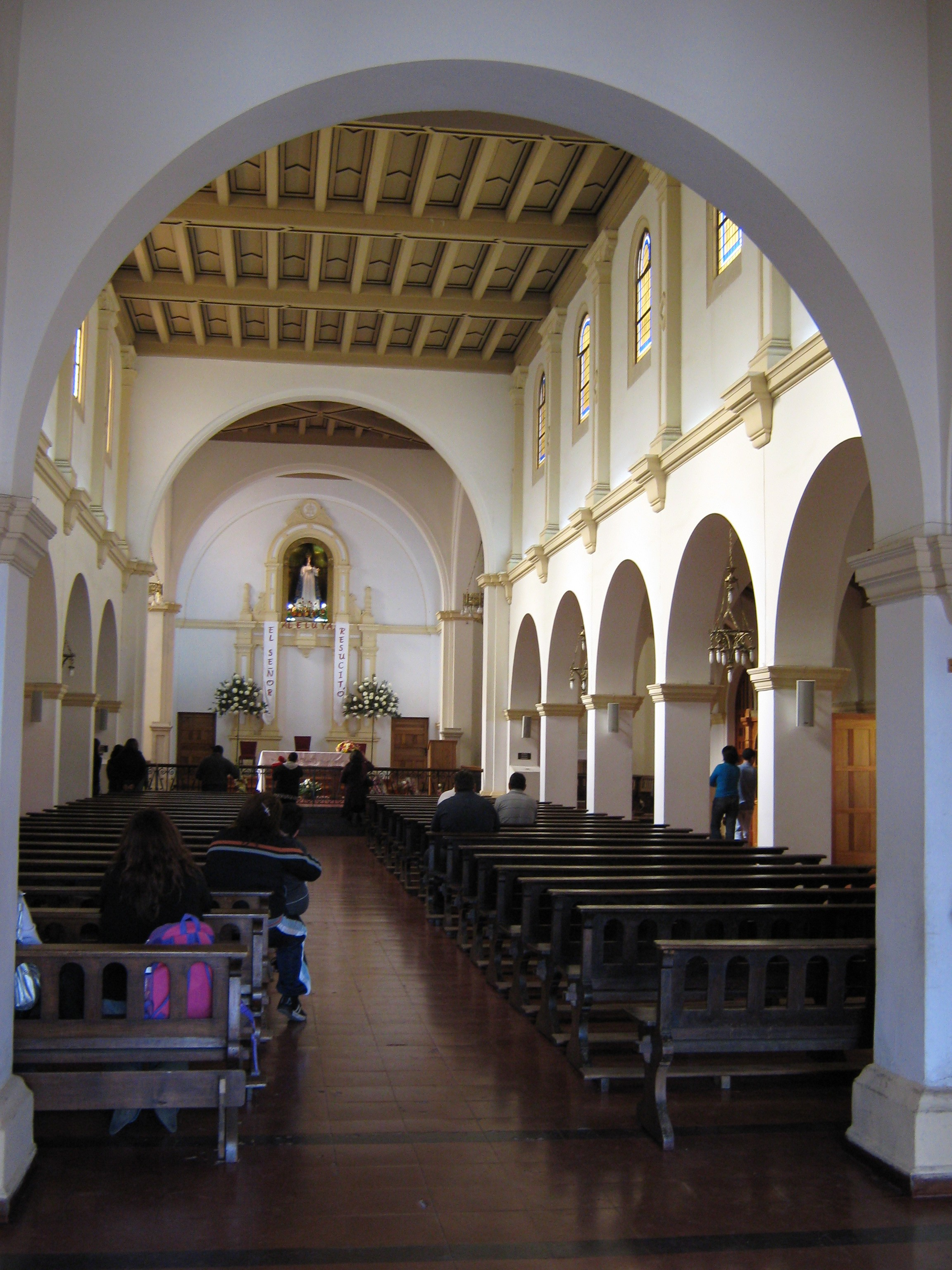 Lo Vásquez Inmaculada de la Concepción Sanctuary